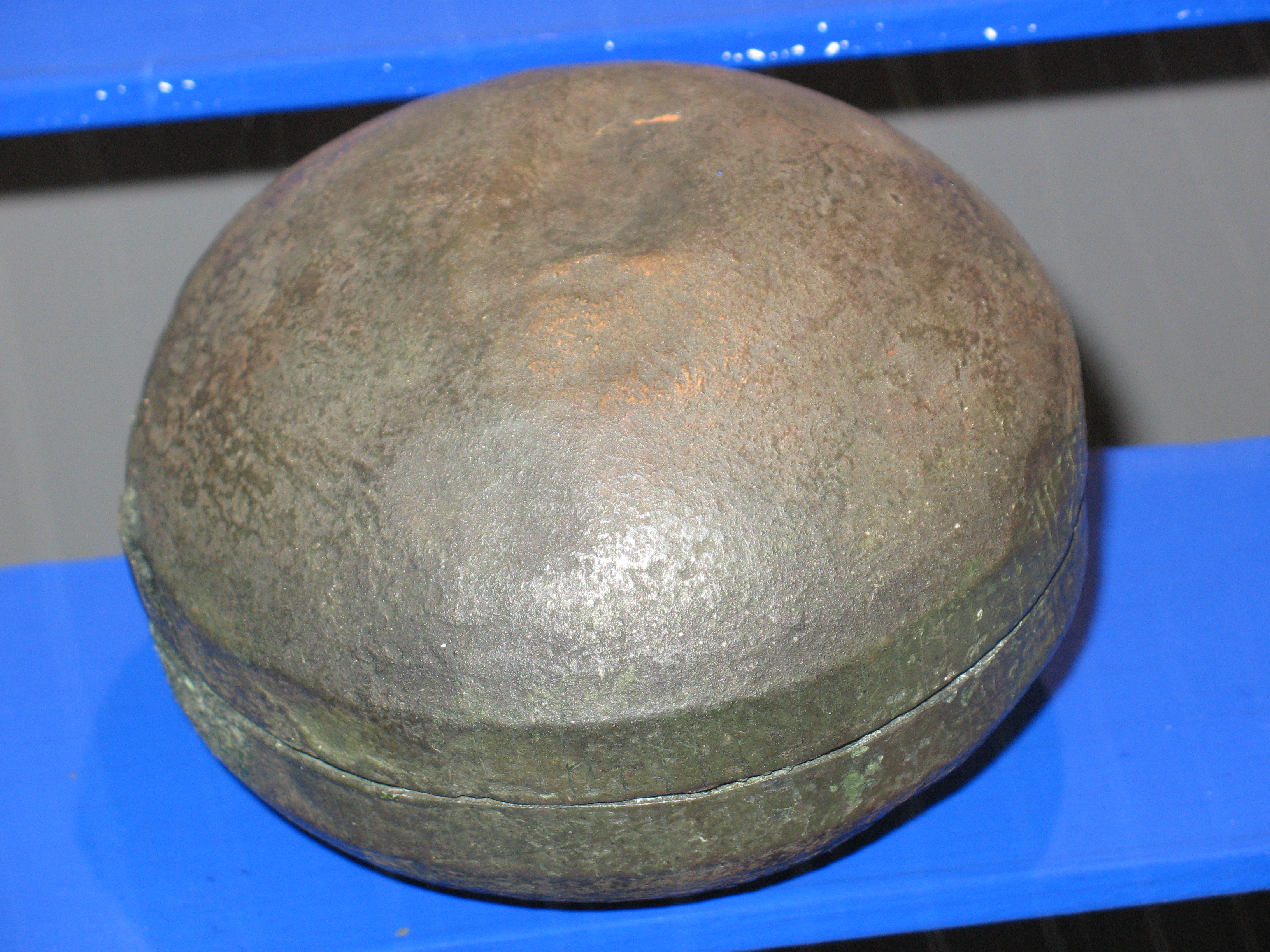 copper box with runes: U Fv1912;8.